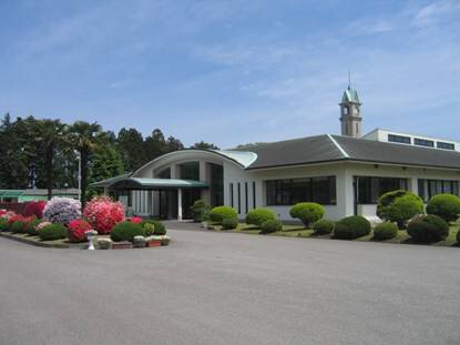 National Academy of Kinugawa.